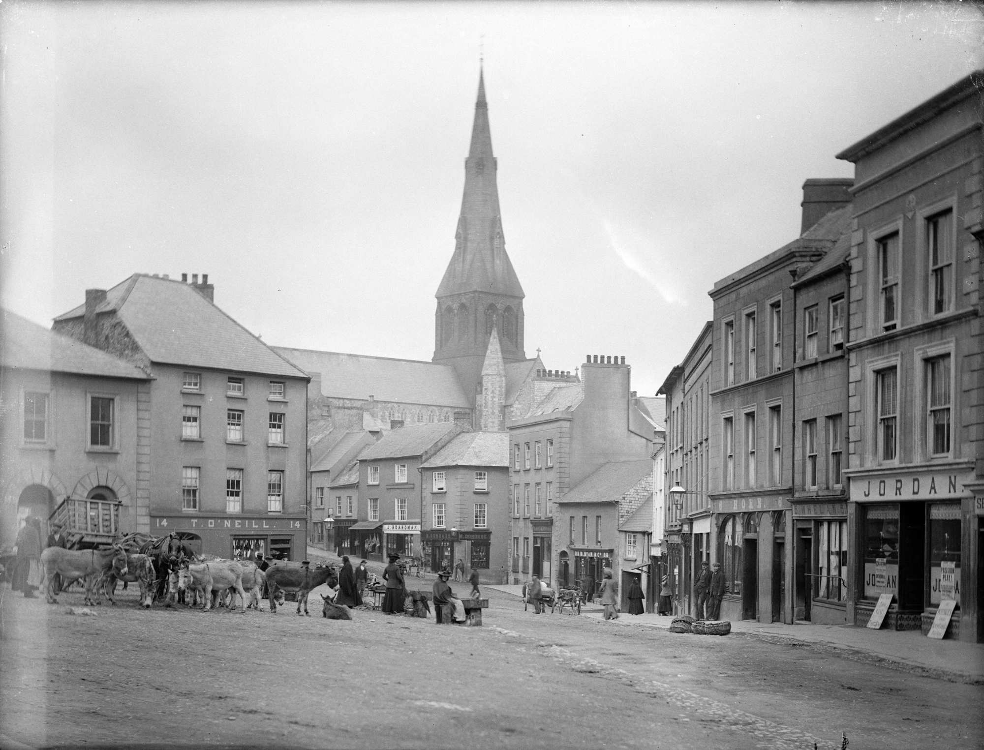 Market Square, Enniscorthy, County Wexford, Ireland, with St Aidan's Cathedral in the background. The date is after 1884, when bell tower was added to the cathedral, and before 1908, when third storey was added to the Market House. Jordan's on the right looks like a bar, and the placards leaning against it look like advertisements for whiskeys. Some dating information might be gleaned from the posters in the windows for a collection to do with St Aidan's Cathedral, and a Passion Play. Photographer: Poole Photographic Studios, Waterford NLI Ref.: P_WP_0478